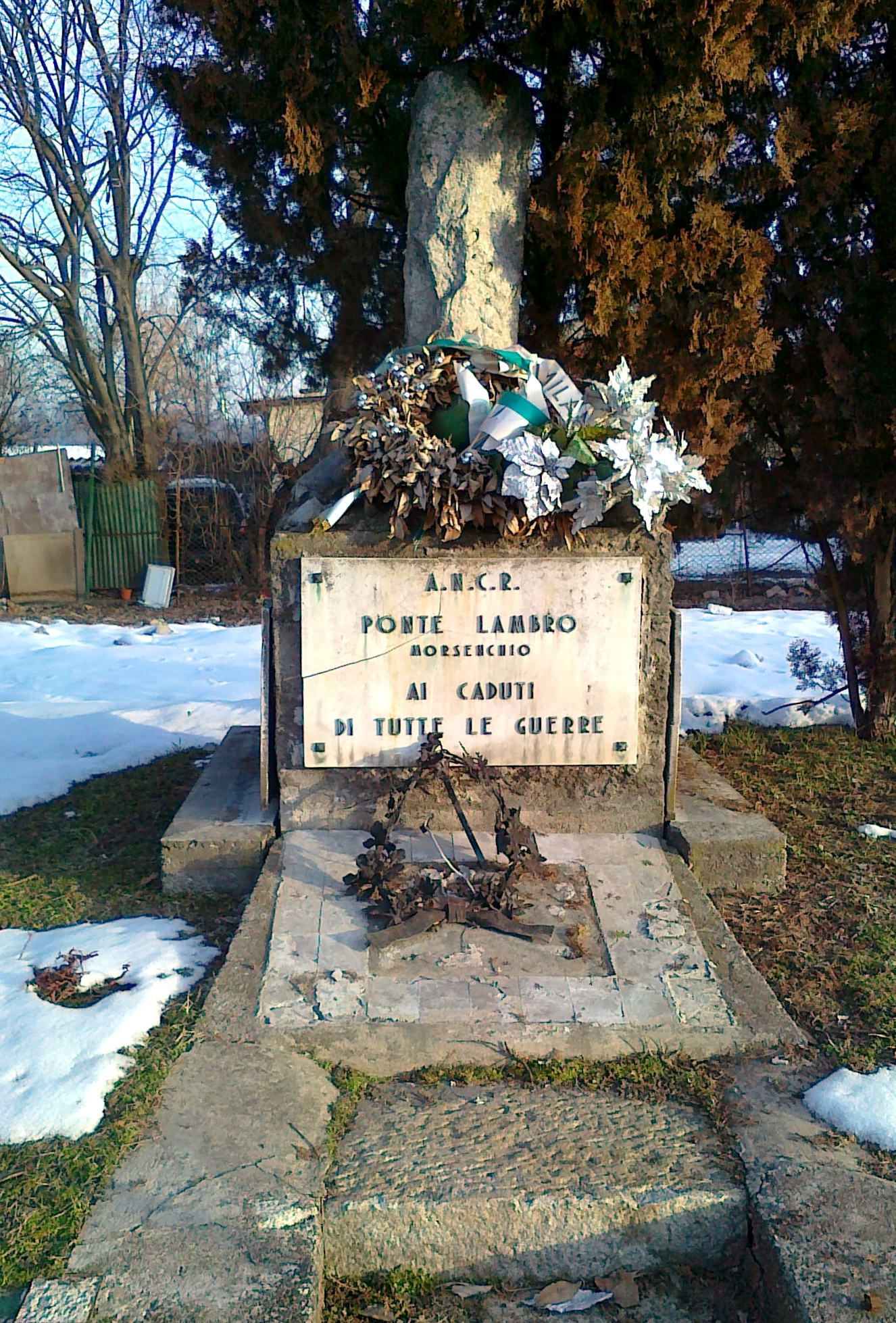 memorial deaths on war